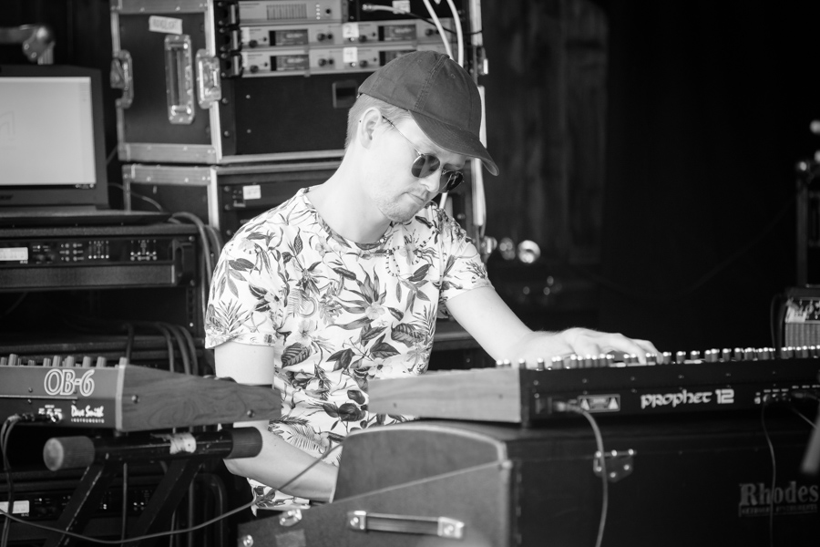 Ivan Blomqvist with Rohey at Christians kjeller. The concert was part of Kongsberg Jazzfestival and took place on 04. July 2018 in Kongsberg. Lineup: Rohey Taalah (vocal) Ivan Blomqvist (keyboard) Kristian Jacobsen (bass guitar) Henrik Lødøen (drums)